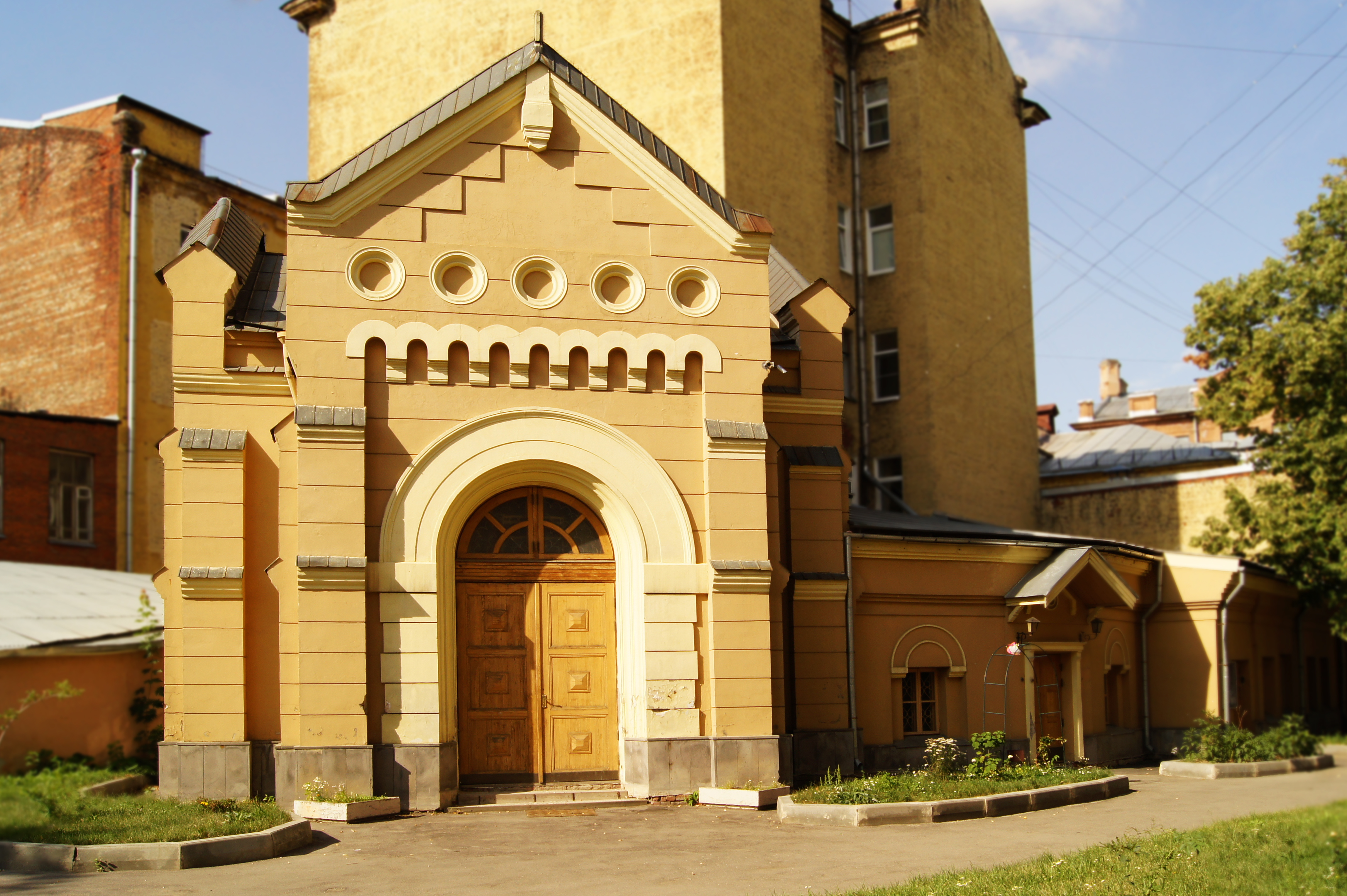 Fyodor Schechtel. St. Peter und Paul Chapel